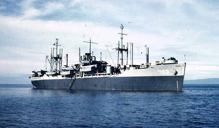 The U.S. Navy attack transport USS Sanborn (APA-193) at anchor, circa late 1944/early 1945.